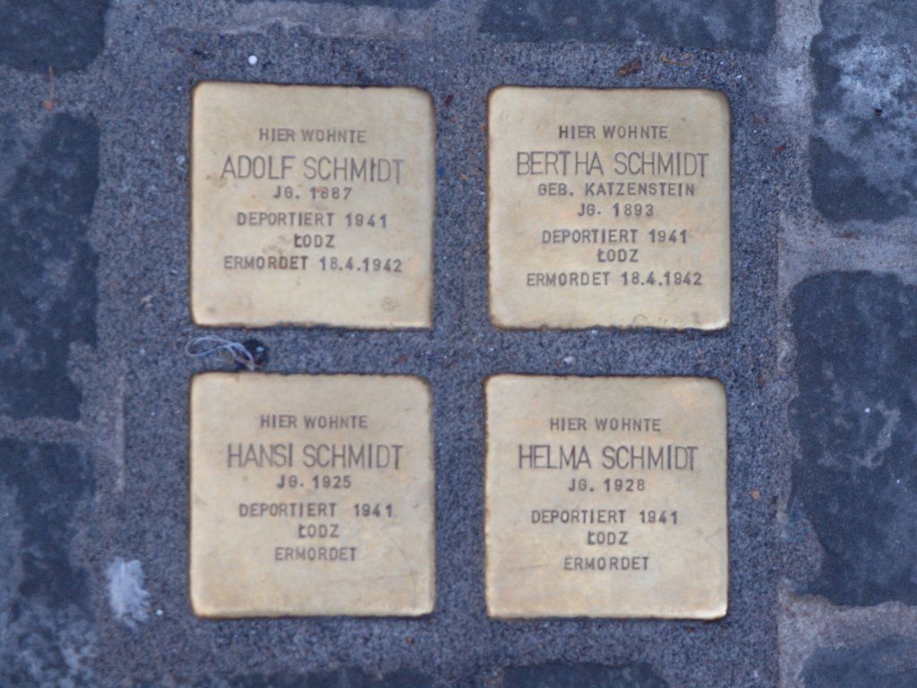 Stolpersteine ("stumbling block") for Bertha, Helma, Adolf and Hansi Schmidt in Bad Hersfeld